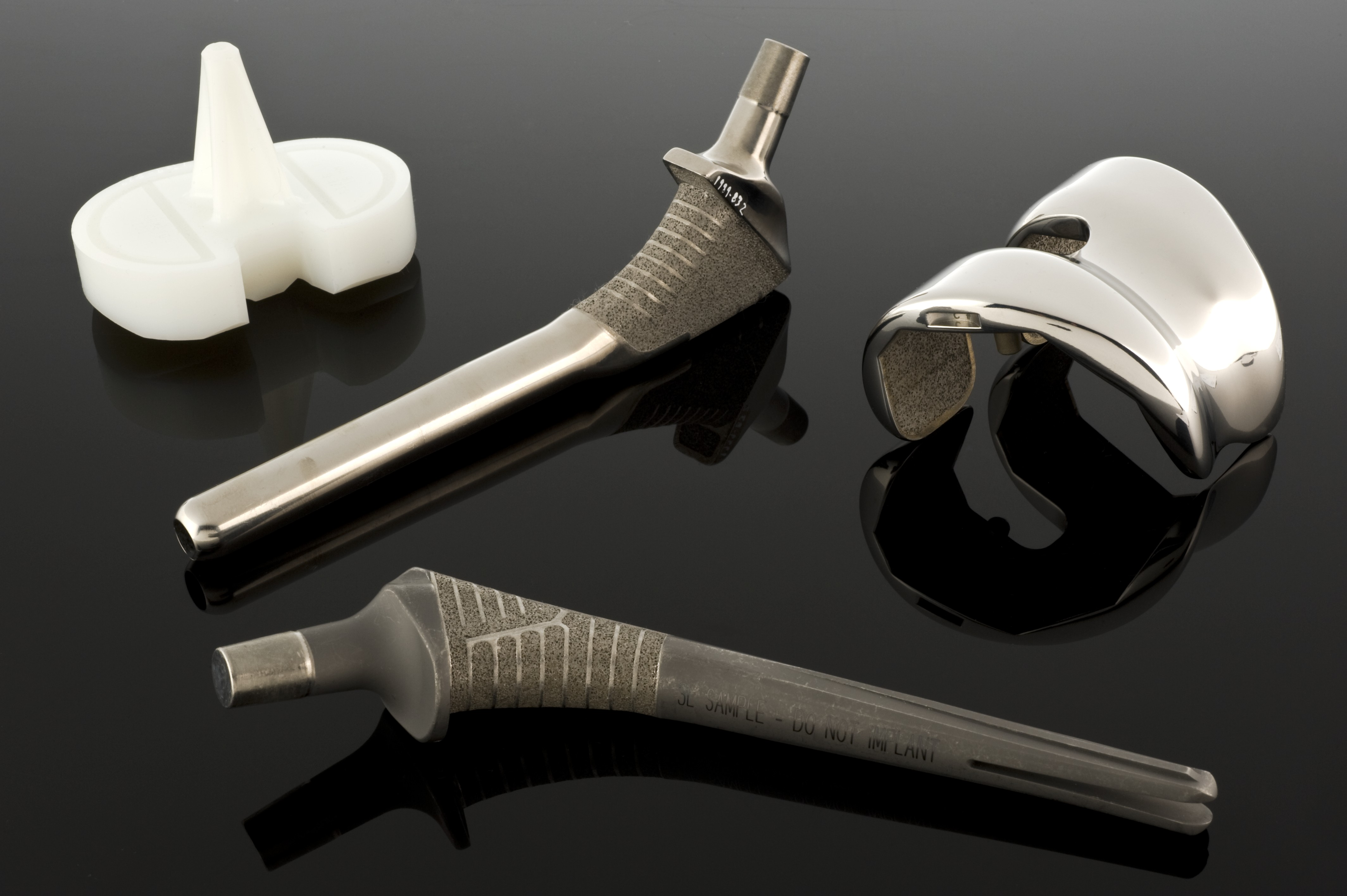 Made from titanium alloy, this prosthetic (shown in the centre) is used to replace worn out, damaged or diseased hip joints. Joint replacements and implants are made from materials such as titanium that are not recognised by the human body (so they will not be attacked by the immune system and rejected). With an ageing population, over 50,000 hip replacements are now carried out in the United Kingdom each year. This example was made by Sulzer Orthopedics Inc, who also donated the hip replacement to the Science Museum’s collections. It is shown here with other replacement joints (1999-828, 1999-829, 1999-831). Medical Photographic Library Keywords: Arthroplasty, Replacement, Hip